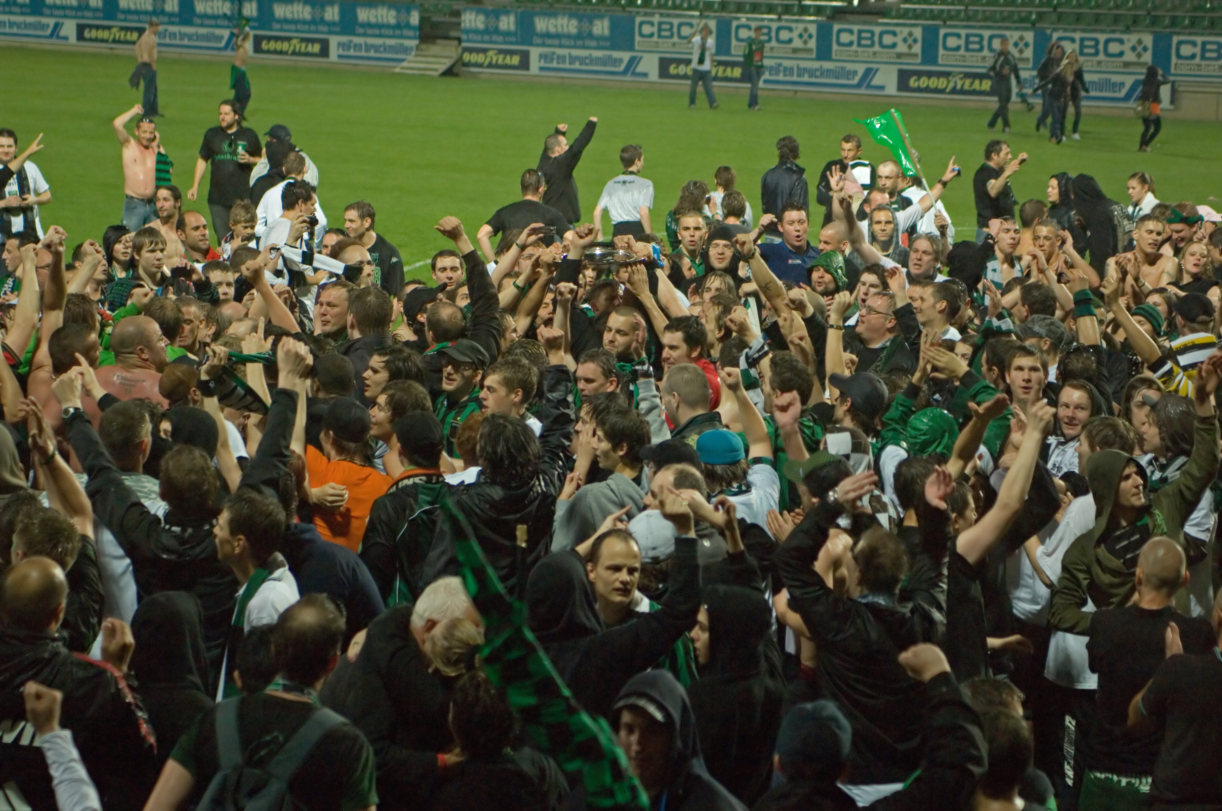 celebration of FC Wacker Innsbruck fans after winning the match against RB Salzburg Juniors. Location: Waldstadion, Pasching, Upper Austria, Austria 8 EX DG f/2,8 Film / Speed: ISO 800 Comment